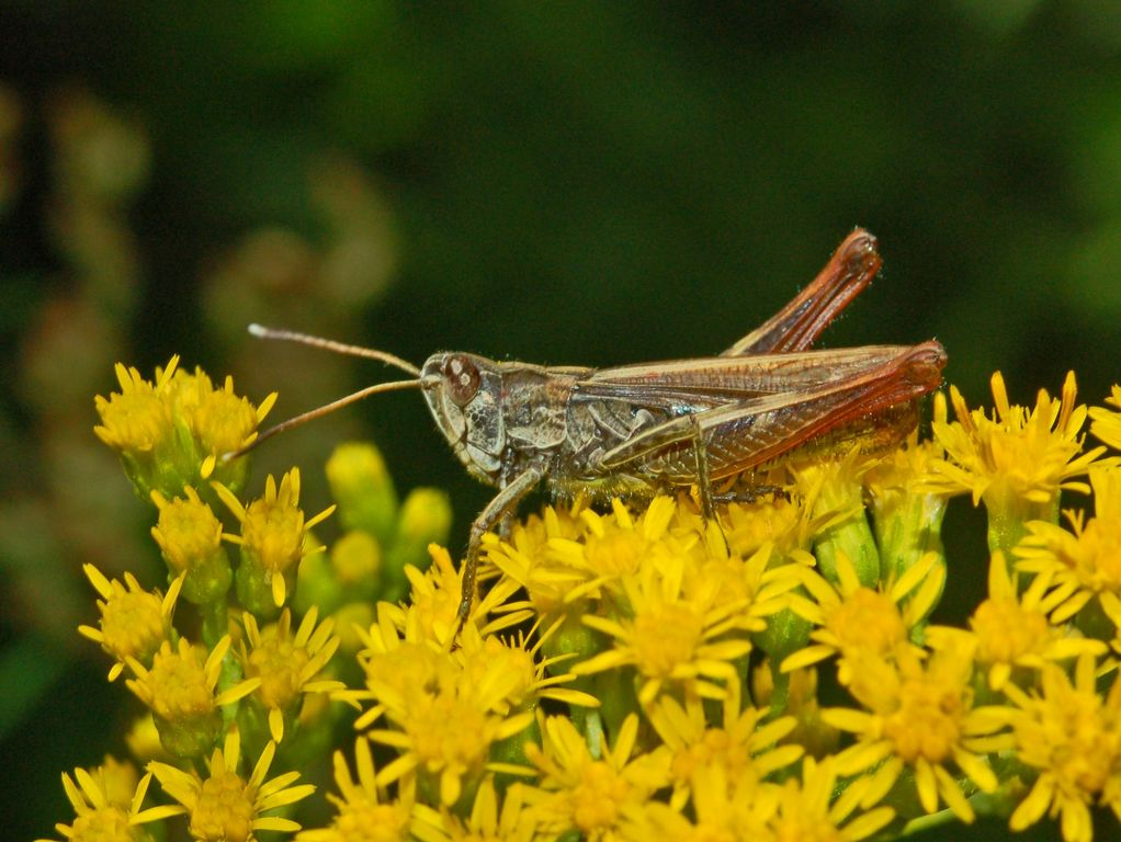 Gomphocerippus rufus - male